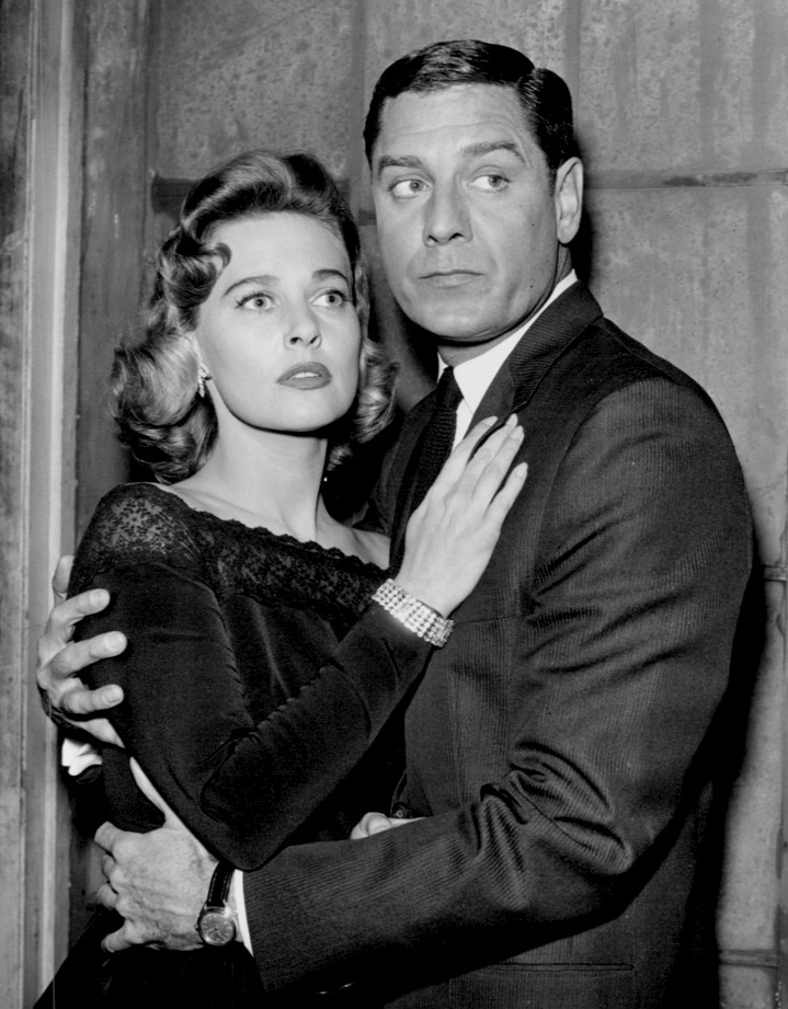 Craig Stevens and Lola Albright from the television drama series Peter Gunn.